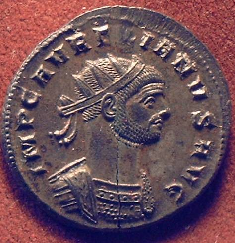 Antoninianus of Aurelianus (roman emperor 270 - 275) Aurelianus